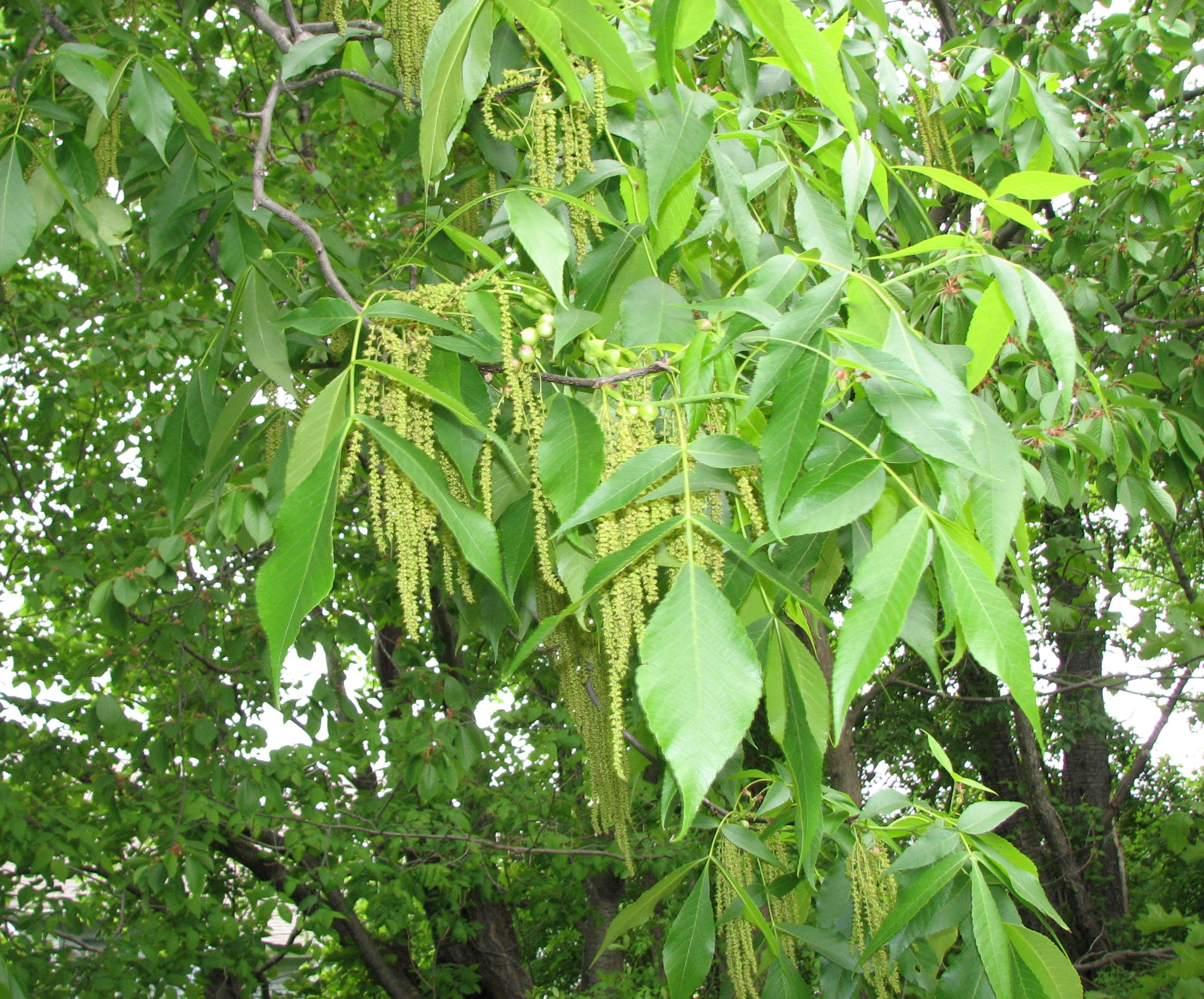 Galls of Phylloxera sp, on pignut hickory tree, Carya glabra. Size: ~1 mm or less. Gall ~1cm. Horsham trail, Montgomery County, Pennsylvania, USA.